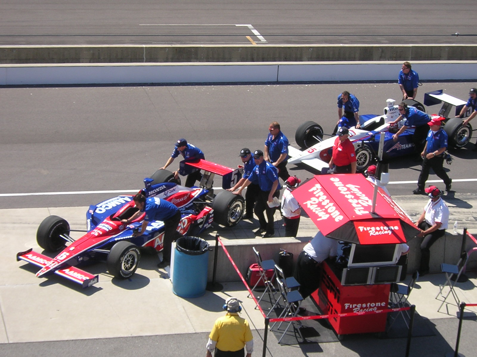 Dreyer & Reinbold Racing's #5 and #15 cars at w:2007 Indianapolis 500 qualifying.